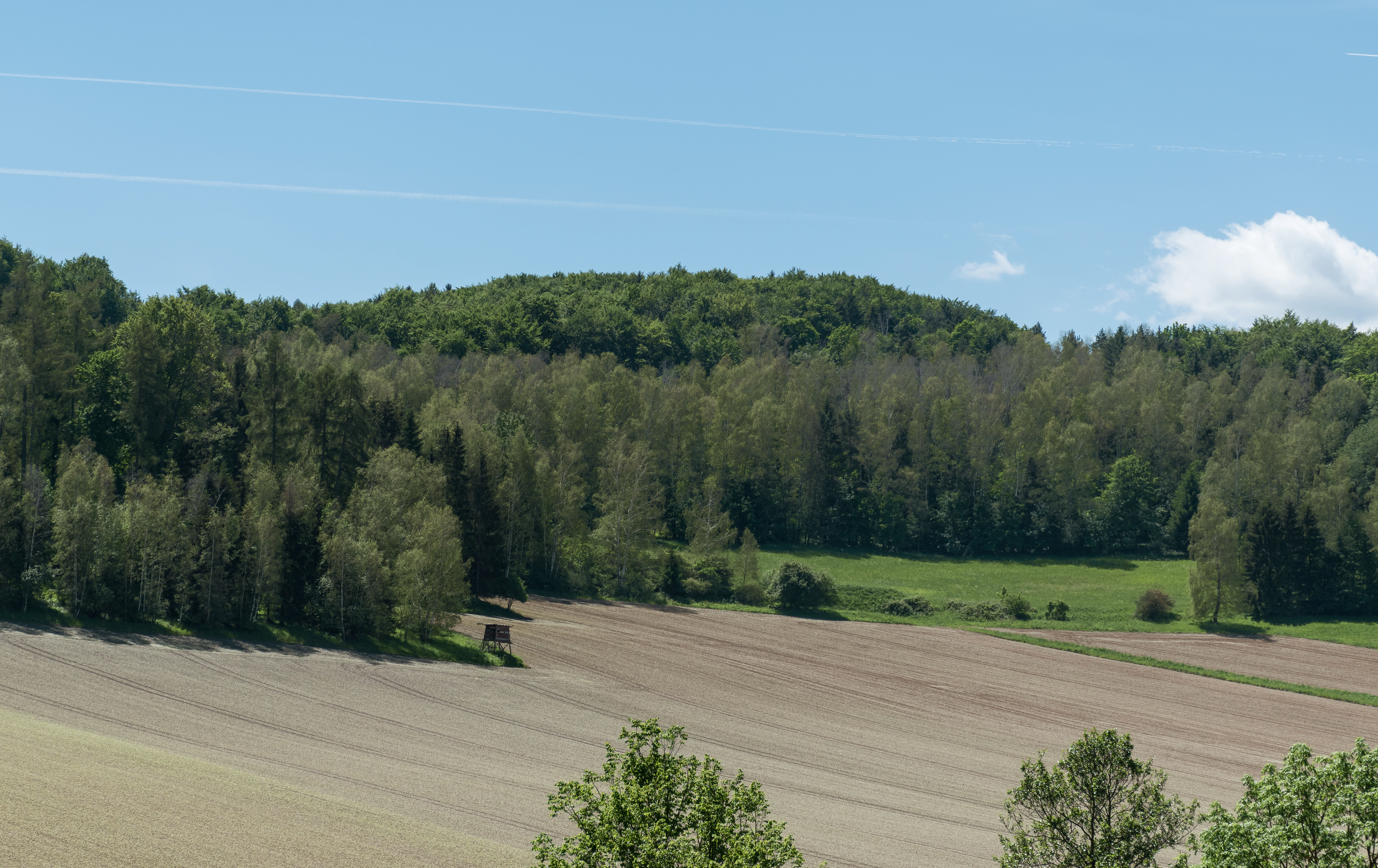 Żeleźniak, Krowiarki, Sudetes